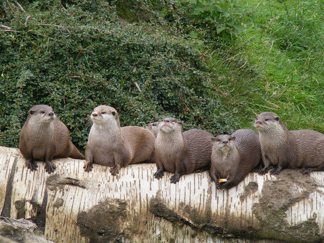 Whipsnade Zoo, near to Whipsnade, Bedfordshire, Great Britain. Otters posing for a team picture.